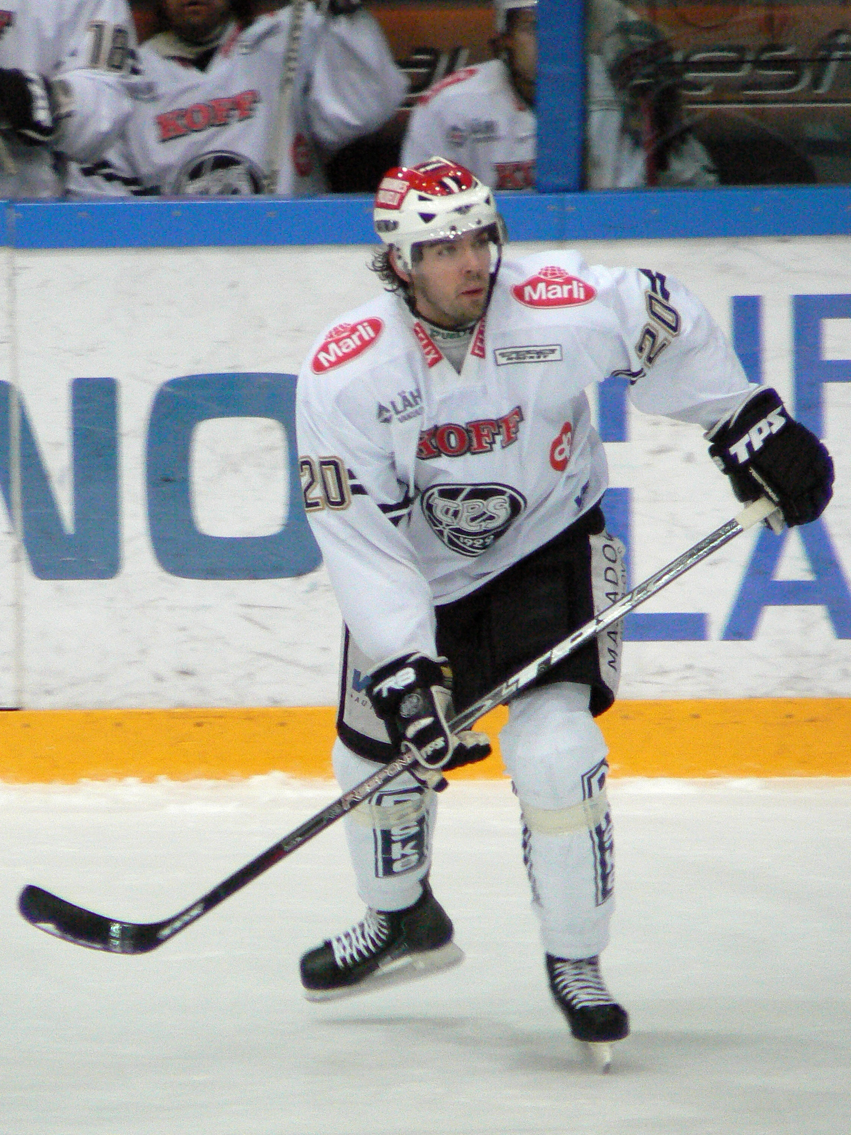 American ice hockey defenseman Kyle Klubertanz playing for TPS Turku of the Finnish SM-liiga in January, 2009.